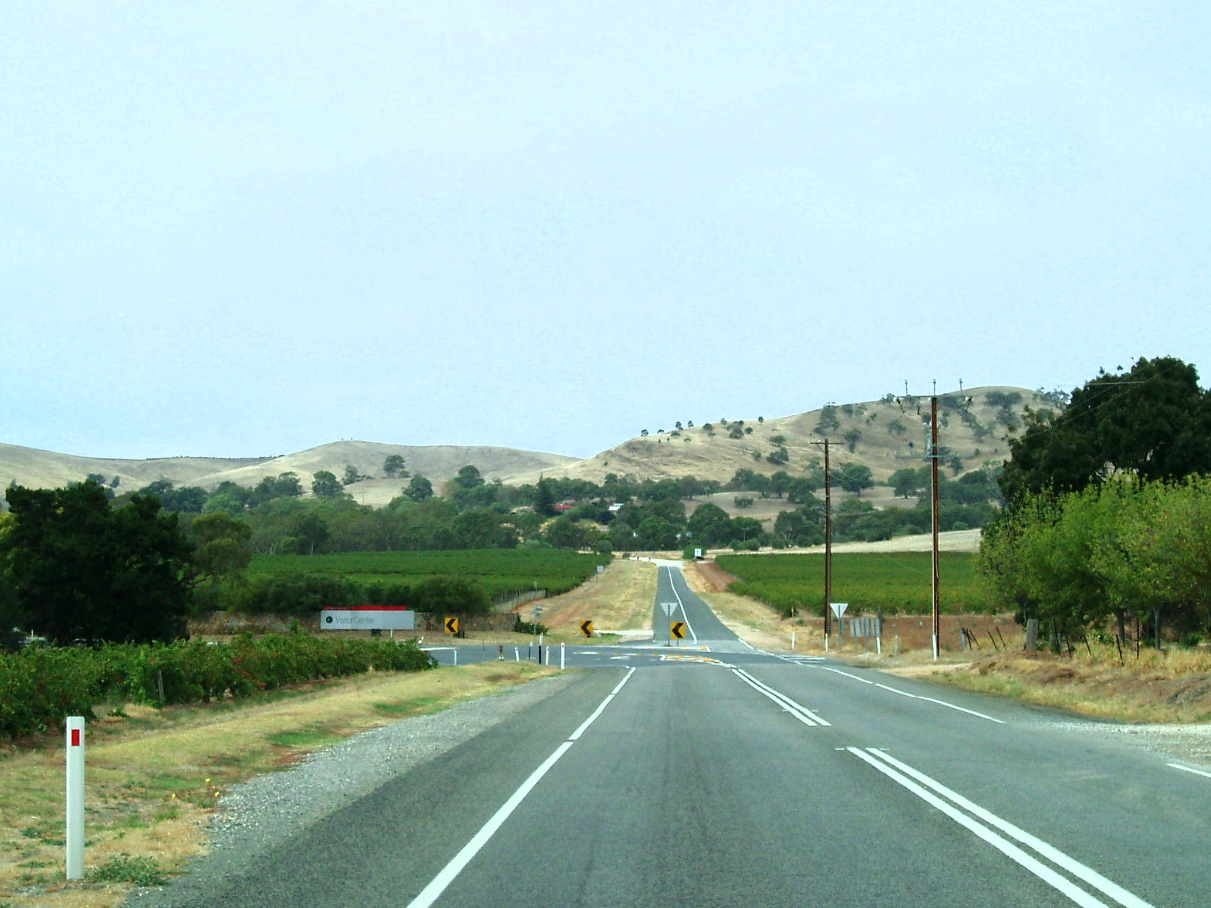 First sight of the Barossa Valley, and it was somehow not what I had imagined. But at least it had stopped raining!